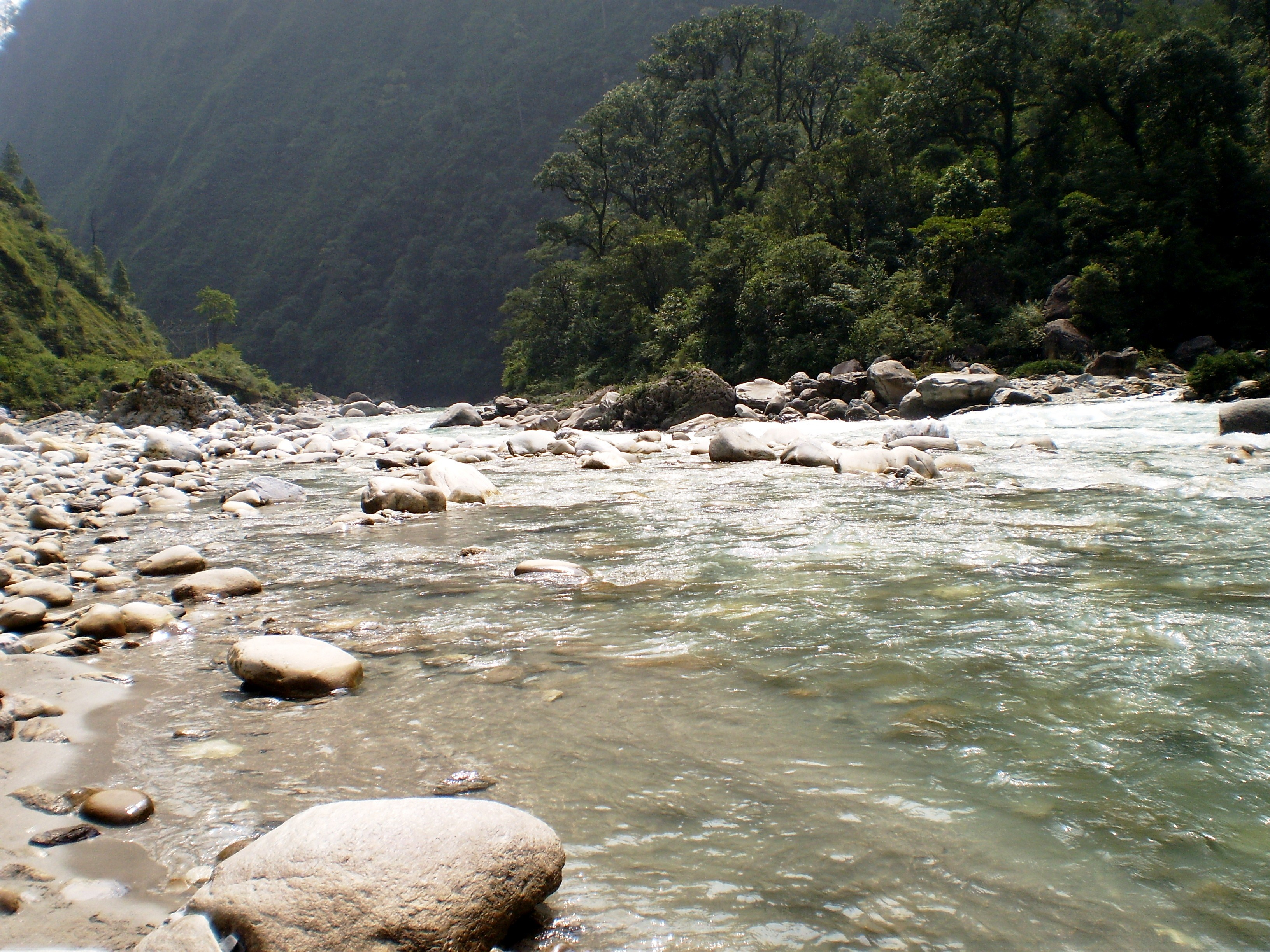 a wild river,, flowing silently, amidst the deep jungles and Mountains of Himalaya